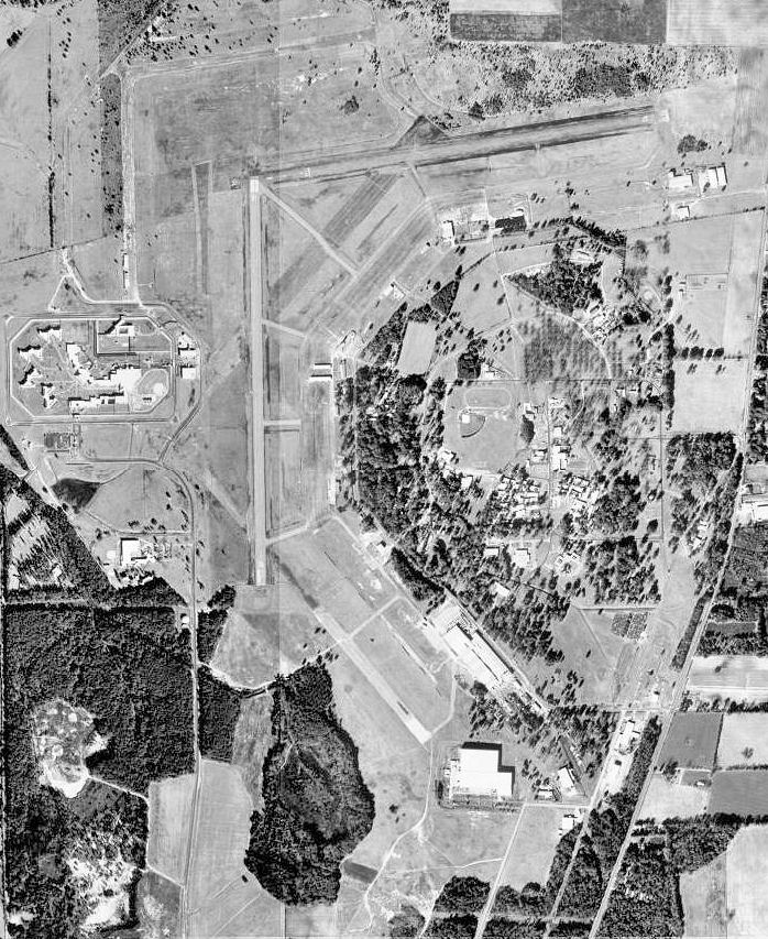 Aerial image of Marianna Municipal Airport, Florida